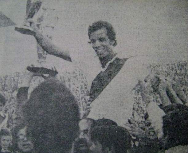 Abdelkader Fréha, Algerian champion 1970-71 with MC Oran